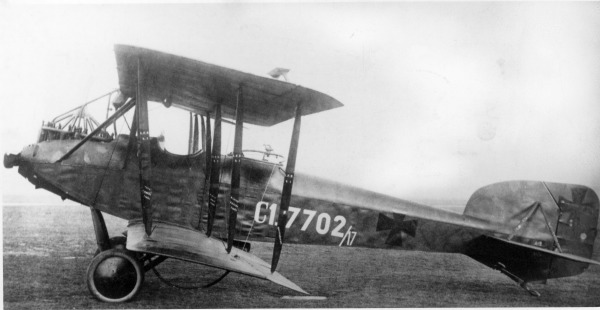 PictionID:43639966 - Catalog:16_004764 - Title:Sablatnig CI 1917 Nowarra photo - Filename:16_004764.TIF - - - - - Image from the Ray Wagner Collection. Ray Wagner was Archivist at the San Diego Air and Space Museum for several years and is an author of several books on aviation --- ---Please Tag these images so that the information can be permanently stored with the digital file.---Repository: San Diego Air and Space Museum